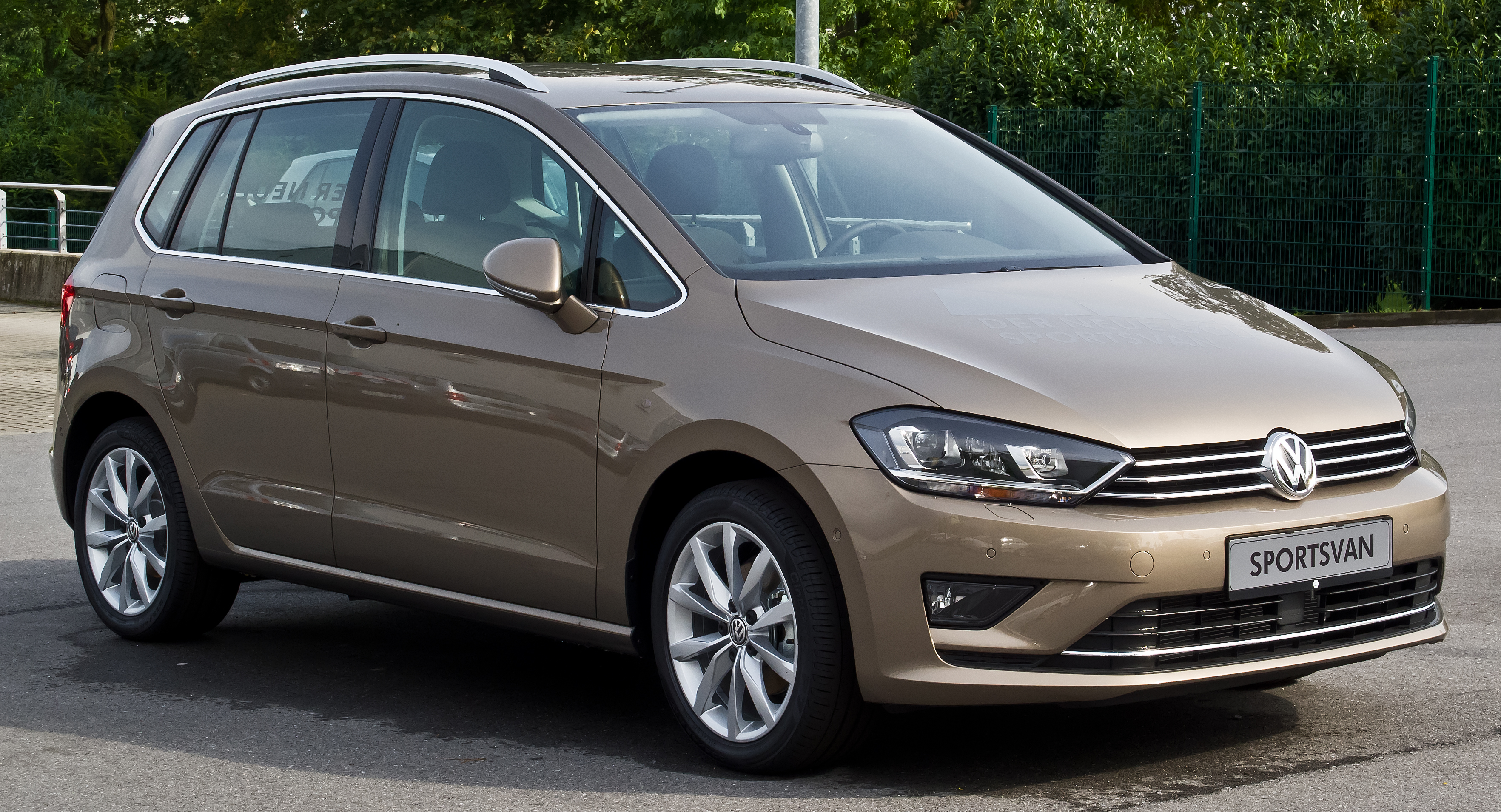 VW Golf Sportsvan 1.4 TSI BlueMotion Technology Highline